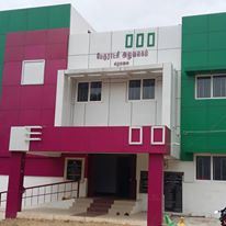 lkldksl